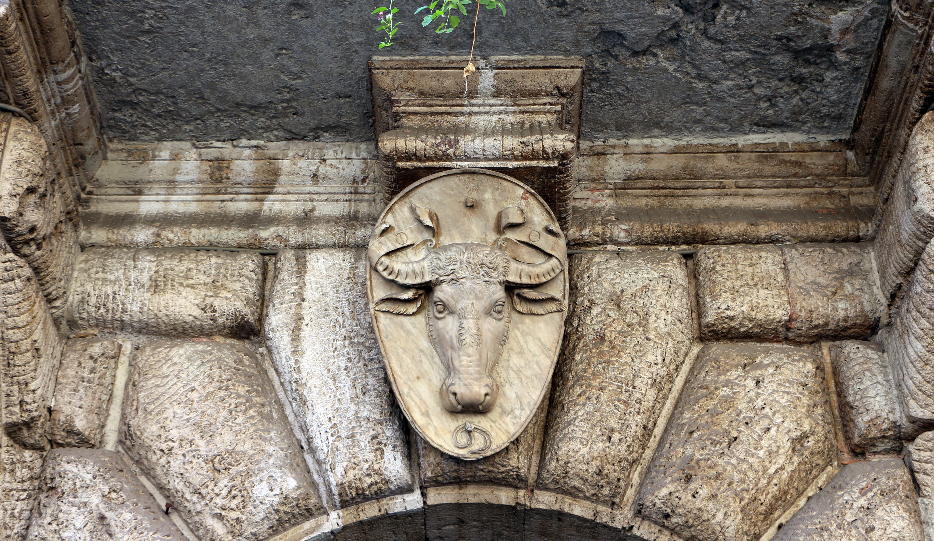 Palazzo Del Bufalo (Rome)